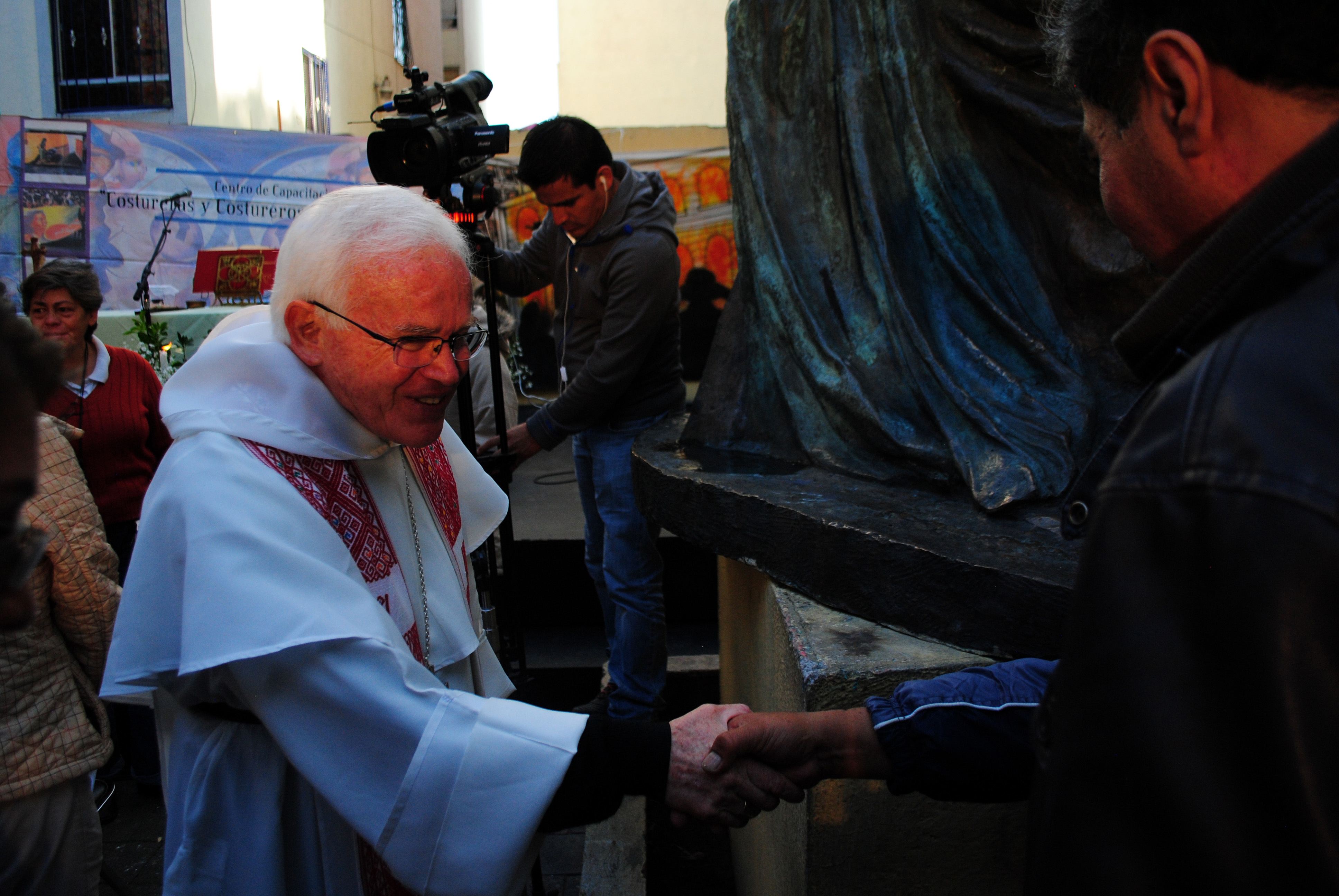 Mexican Bishop Raúl Vera making Pax salutation. Commemorative event of the Association of Sewers and Seamstresses September 19, held on September 19, 2014, in Mexico City.